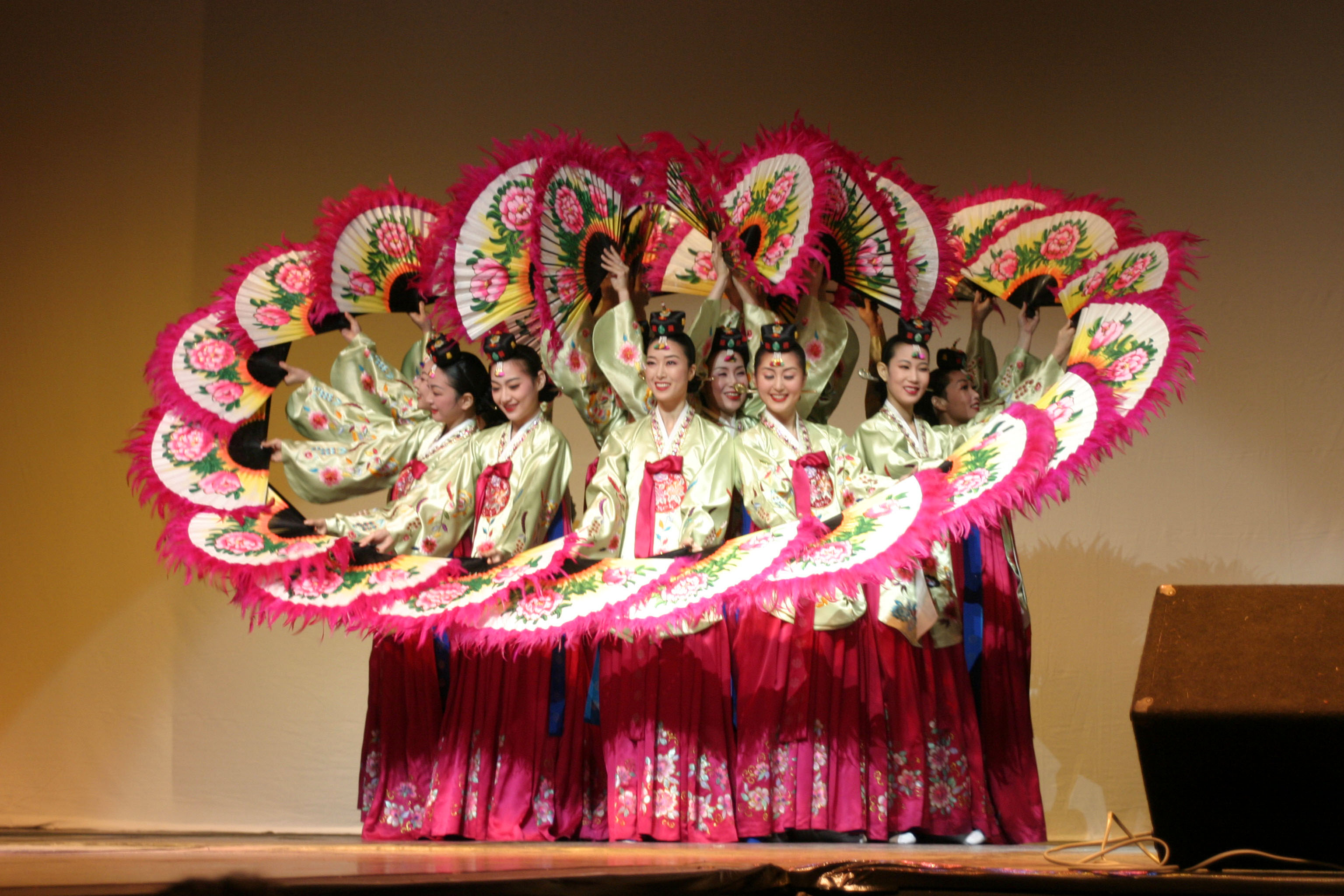 Buchaechum, one of the Korean traditional dance for Royal court of Joseon Dynasty